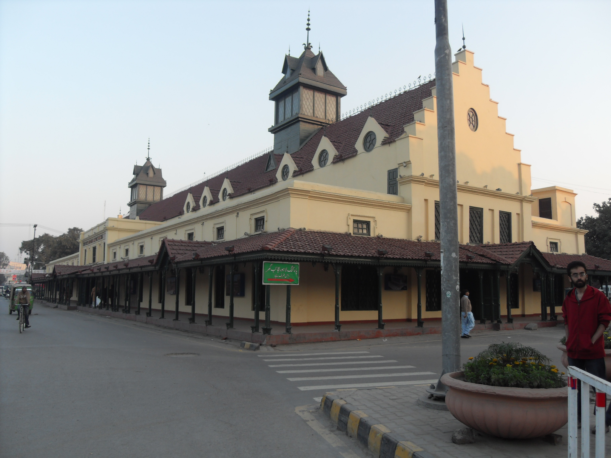 Tollington market, Mall Road , Lahore... This is a photo of a monument in Pakistan identified as the PB-U-67